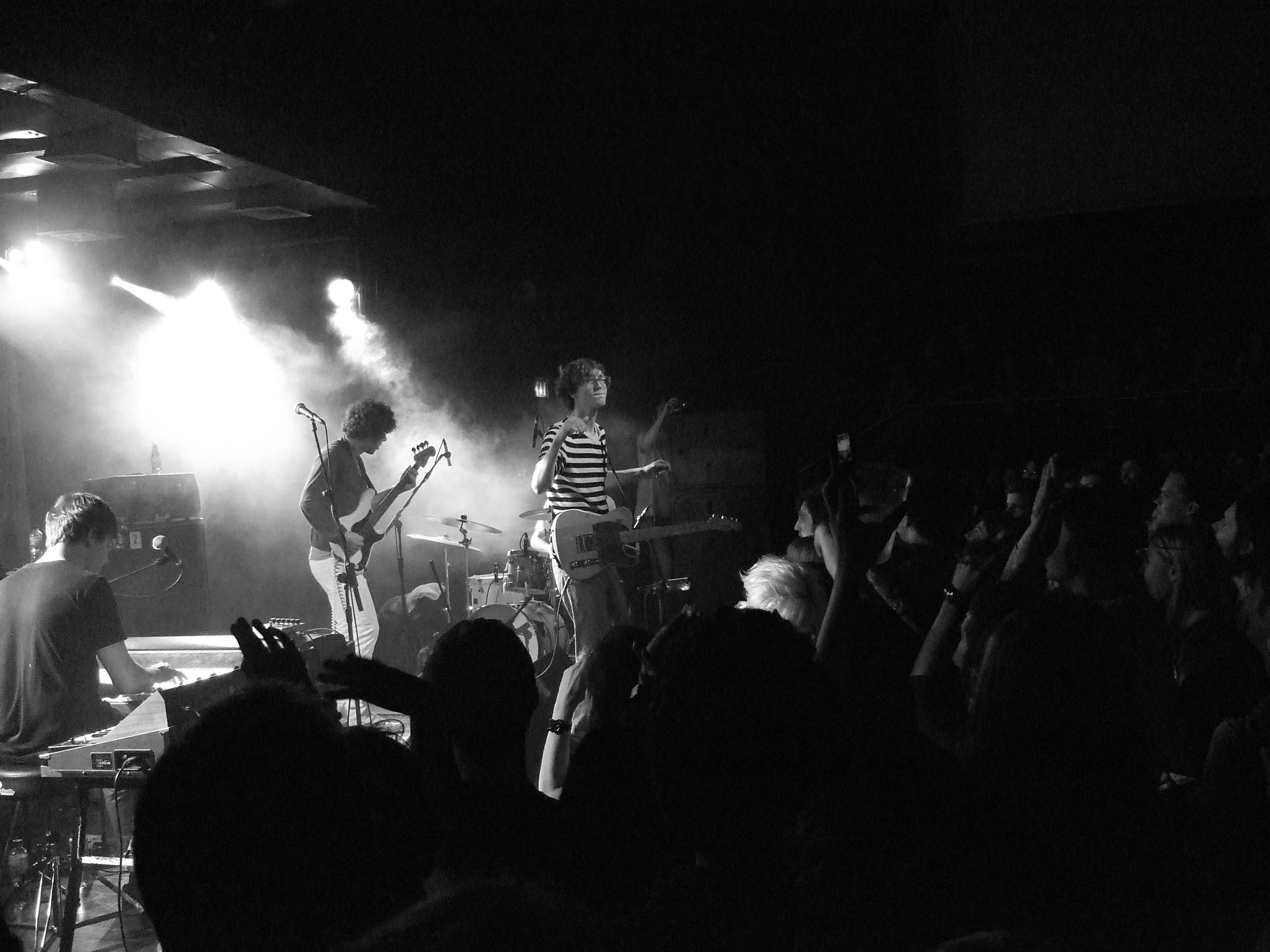 German rock group The Whitest Boy Alive in performance at The Scala, London